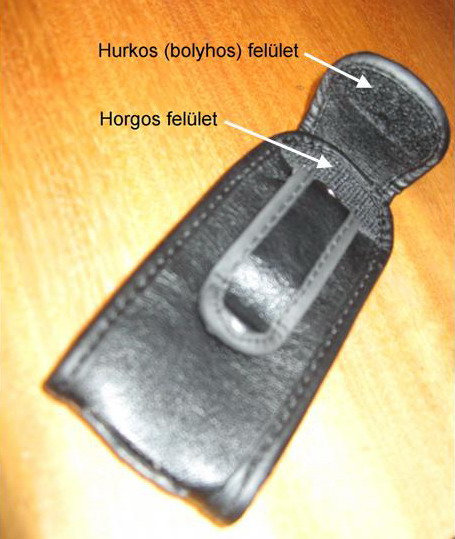 Velcro on a cellphone case (Hurkos felület = Loops, Horgos felület = Hooks)